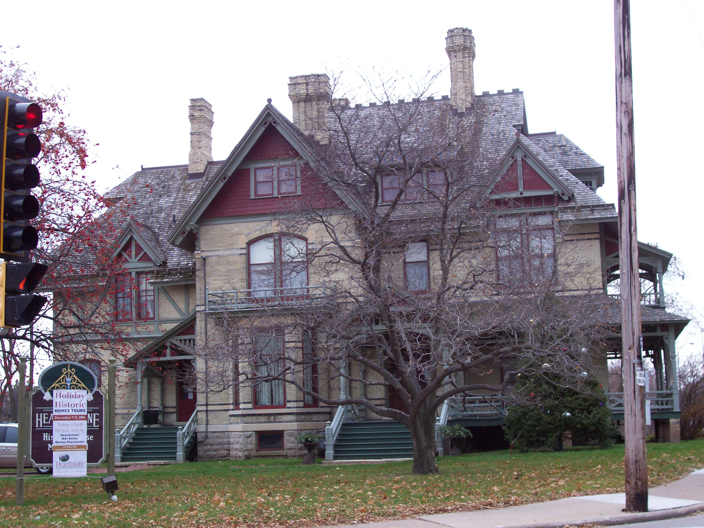 The Hearthstone Historic House Museum — along the Fox River in Appleton, Wisconsin.